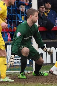 Benjamin Büchel, Oxford United footballer, Kingsmeadow, London, February 2016.